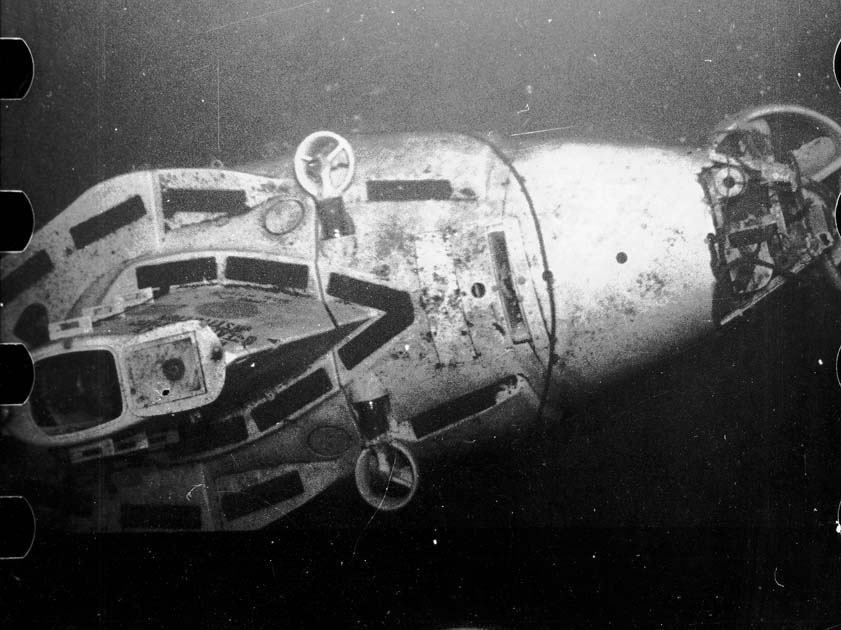 In 1968, while Alvin was being brought onboard its support ship, Lulu, a cable broke. With the hatch open, the submersible quickly filled with approximately 8000 pounds of water and sank in 5200 feet of water, 88 miles off the coast of Nantucket, Massachusetts. Photo taken from DSV Aluminaut